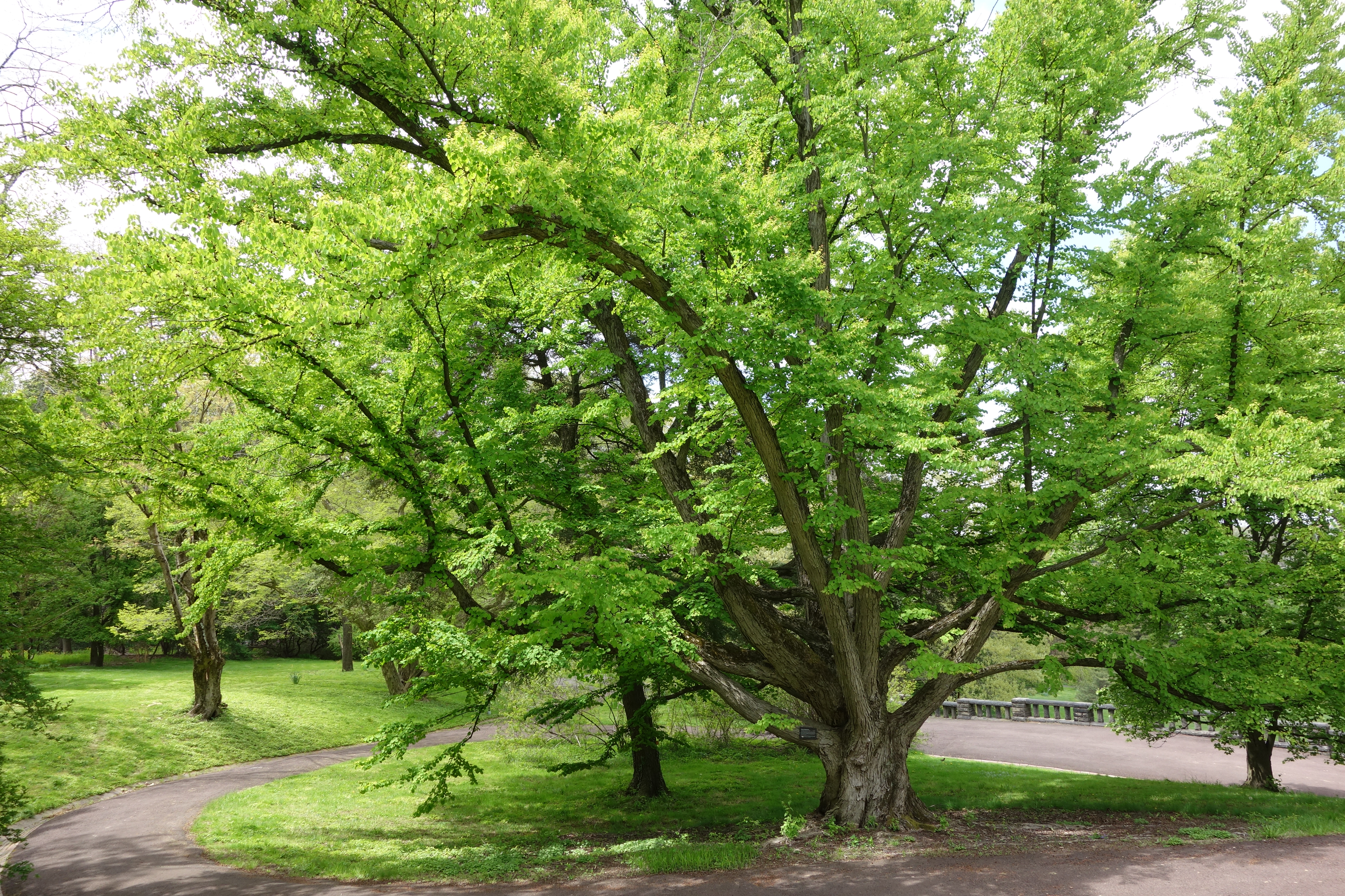 Botanical specimen in the Morris Arboretum, 100 East Northwestern Avenue, Chestnut Hill, Philadelphia, Pennsylvania, USA.